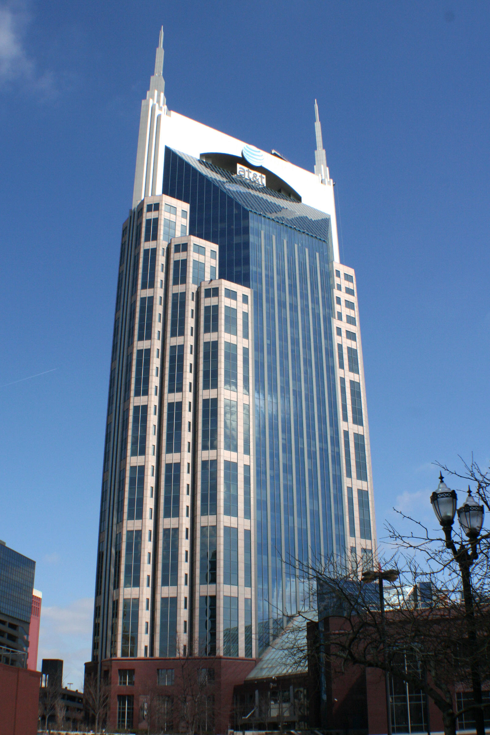 The AT&T Building in Nashville, Tennessee, USA. Formerly named the BellSouth Building, illustrated at Image:Bellsouthbuilding.jpg.